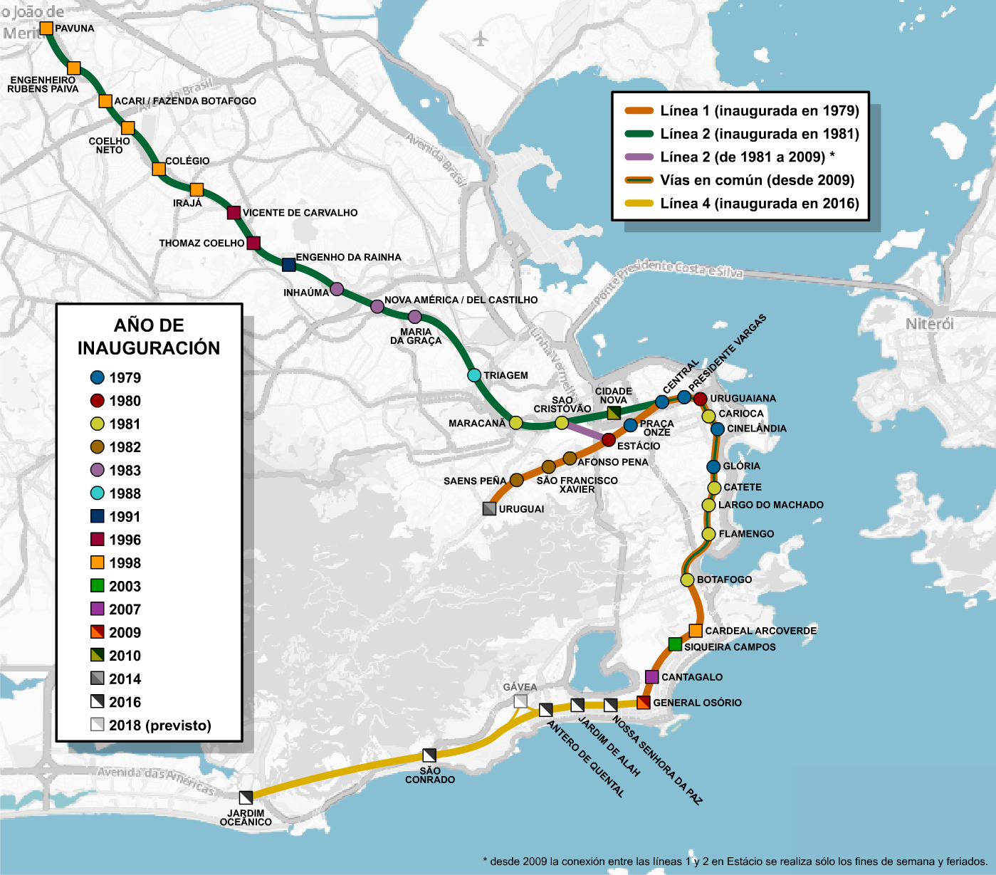 Historical evolution of Rio de Janeiro Metro (Brazil)